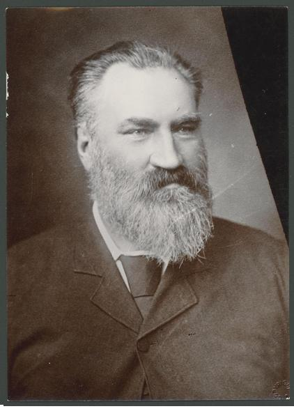 This image shows a photograph of Thomas Playford II, taken before 1915.